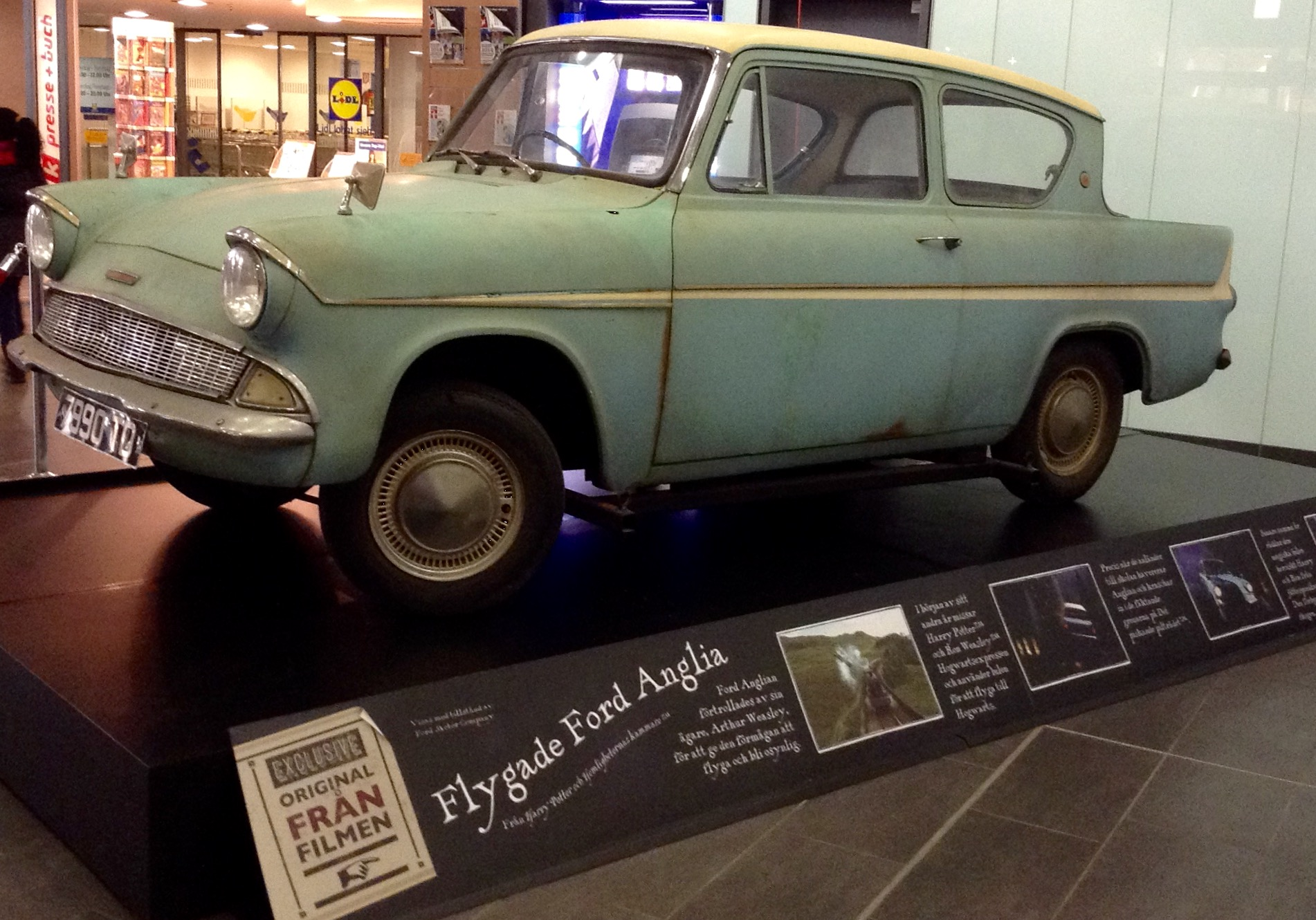 This ’Flying Ford Anglia‘ was used in the movie ’Harry Potter and the Chamber of Secrets (film)‘. It was on show inside the main station of Essen (Germany) where the pic was taken at 5th January 2015.